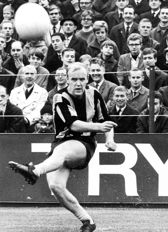 Lennart "Nacka" Skoglund, Swedish soccer player.